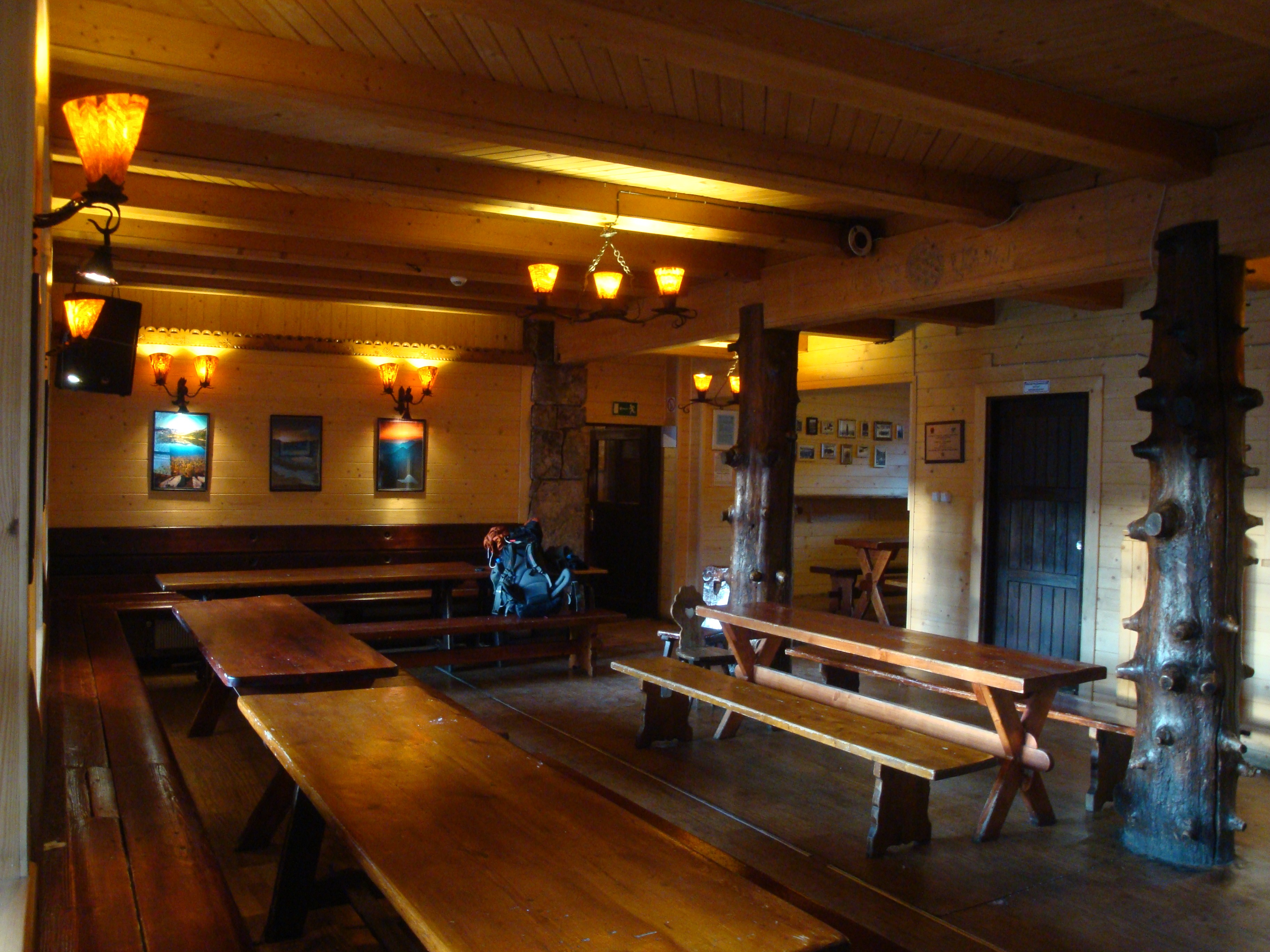 Mountain hut (hostel) in Doilina Piecu Stawów (Polish Tatra Mountains). Dining room.